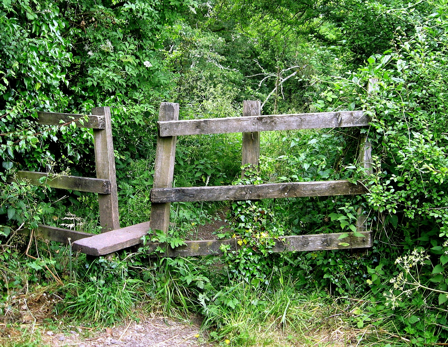 Stile along the disused Thames and Severn Canal towpath at Sapperton, Gloucestershire